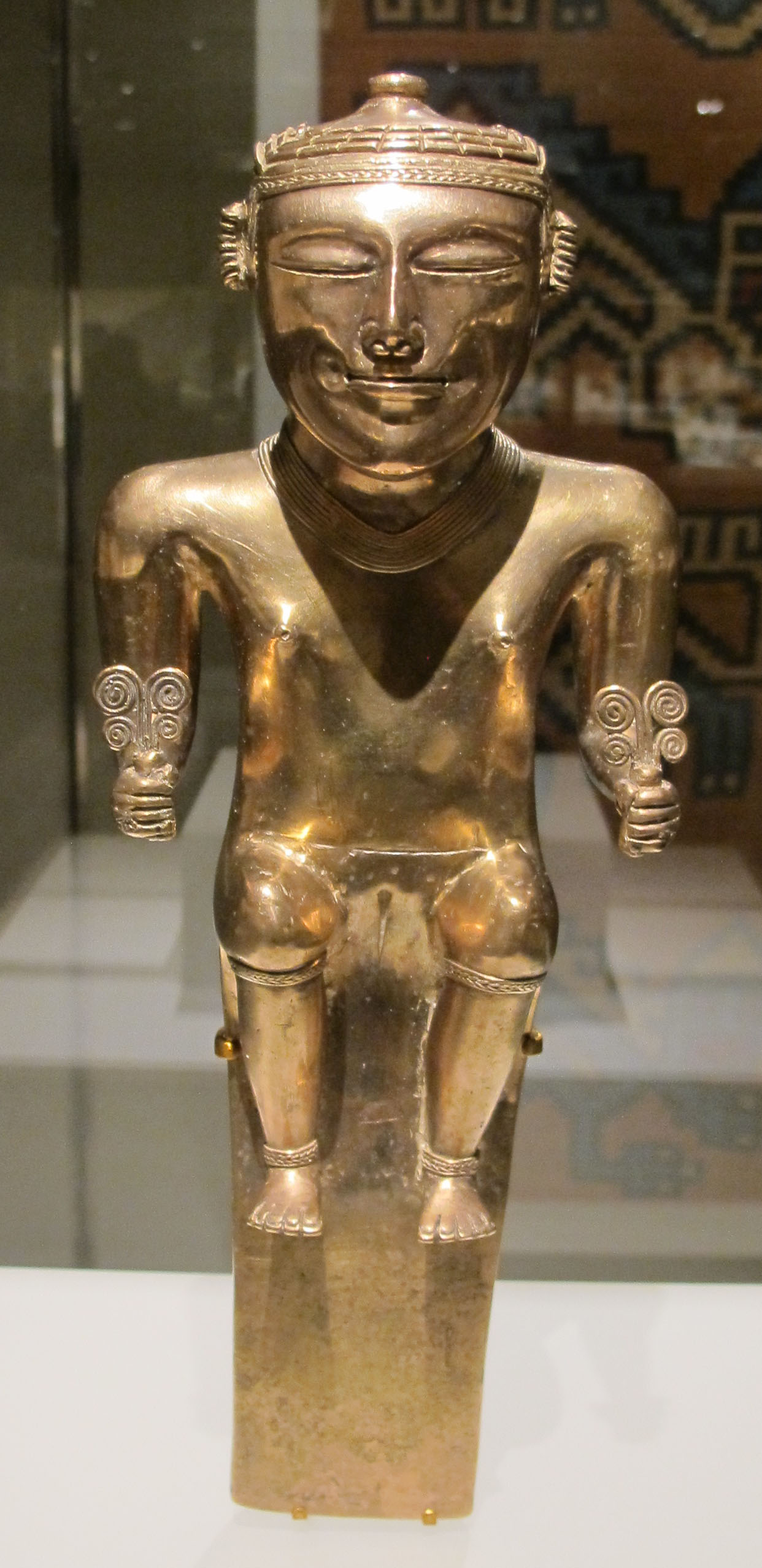 Pre-Columbian jewellery in the Metropolitan Museum of Art